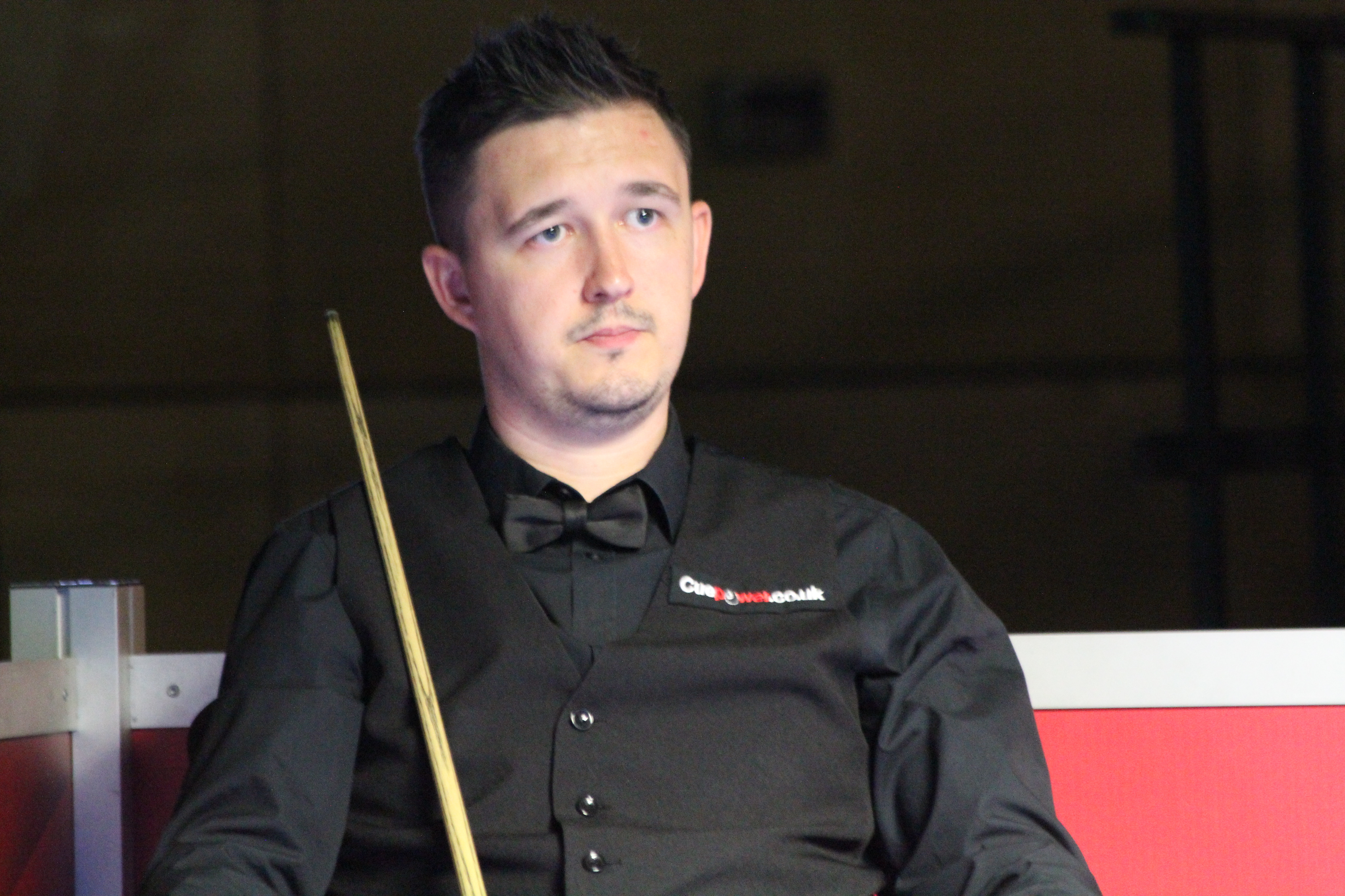 Kyren Wilson at the Paul Hunter Classic 2018